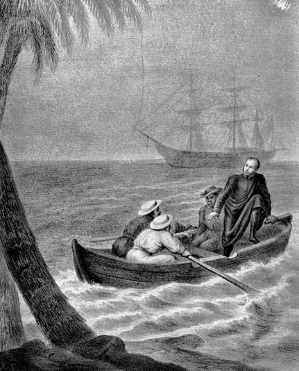 Iturbide return Mexico 1824